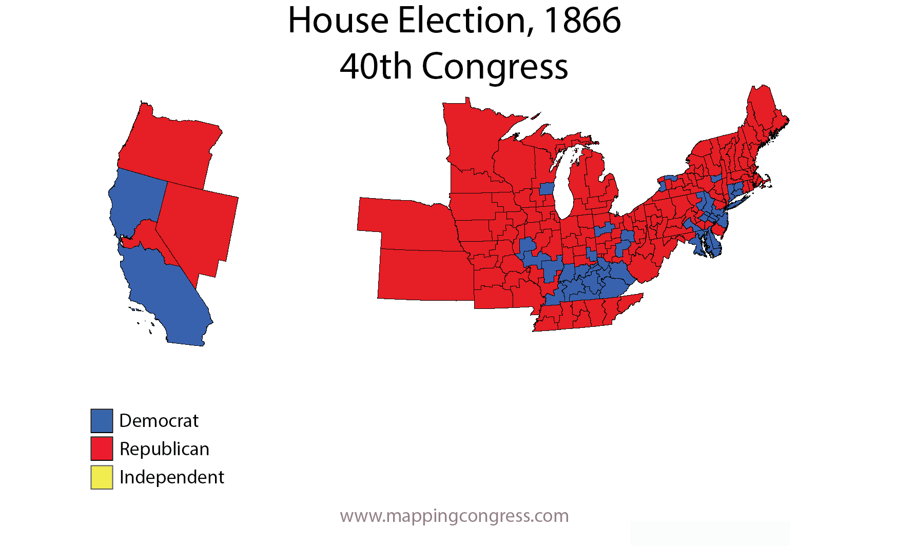 Map of U.S. House elections results from 1866 elections for 40th Congress